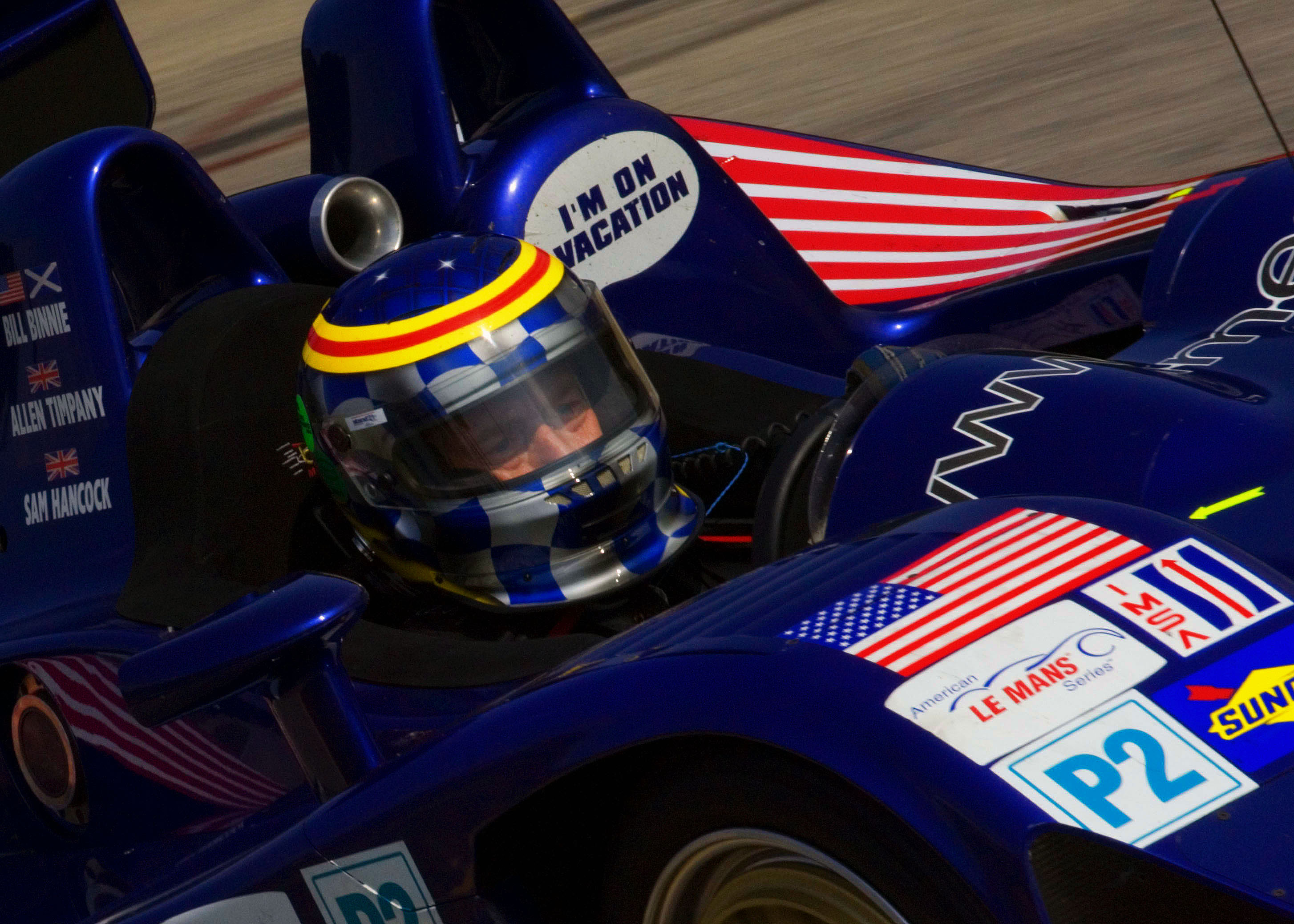 Allen Timpany, Lola, Le Mans 24 hours, Le Mans Series, Zytec, Binnie Motor Sports